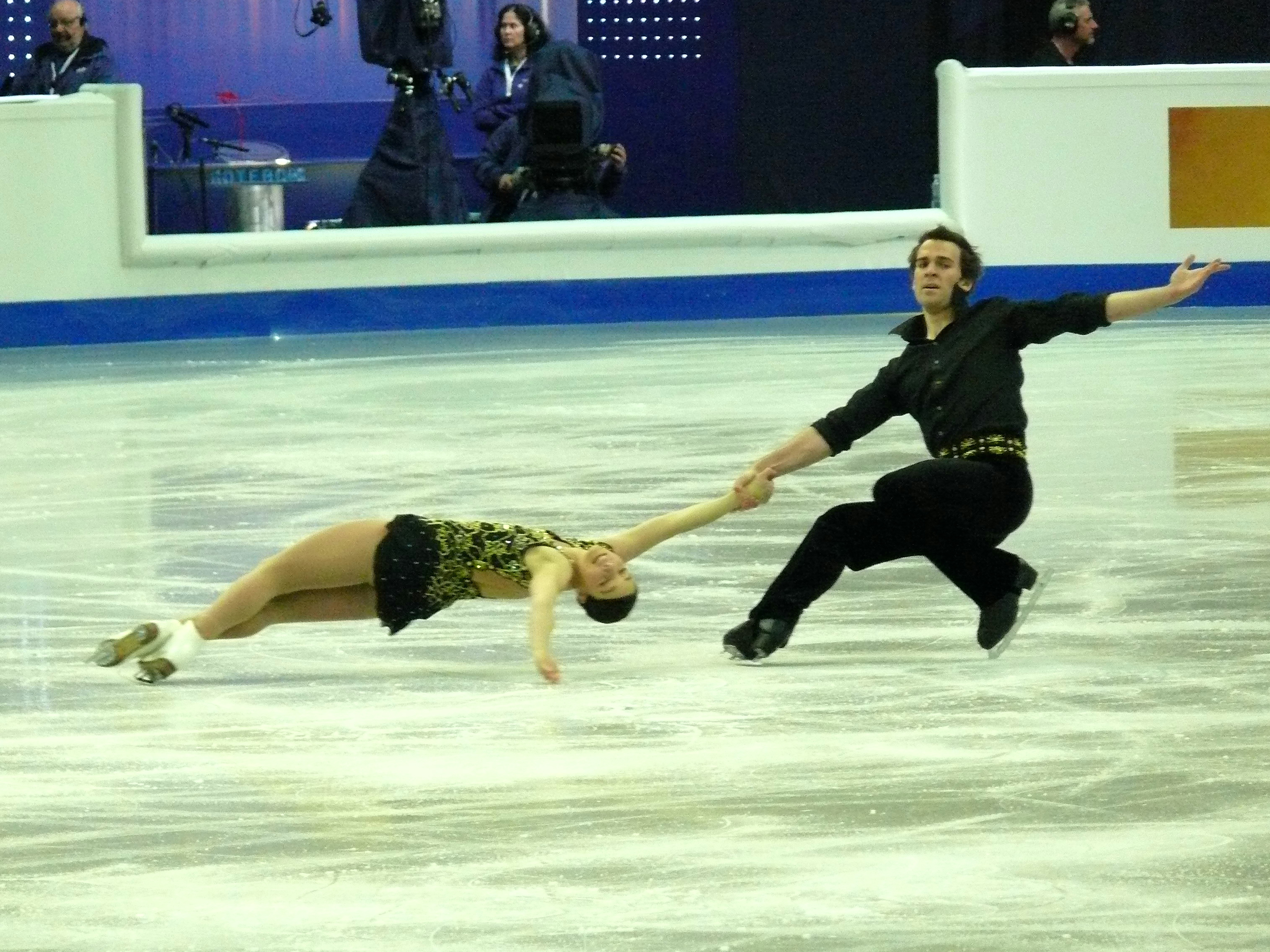 Jessica Dubé and Bryce Davison (CAN) at their short program at the World Championships in Figure Skating in Göteborg (SWE)